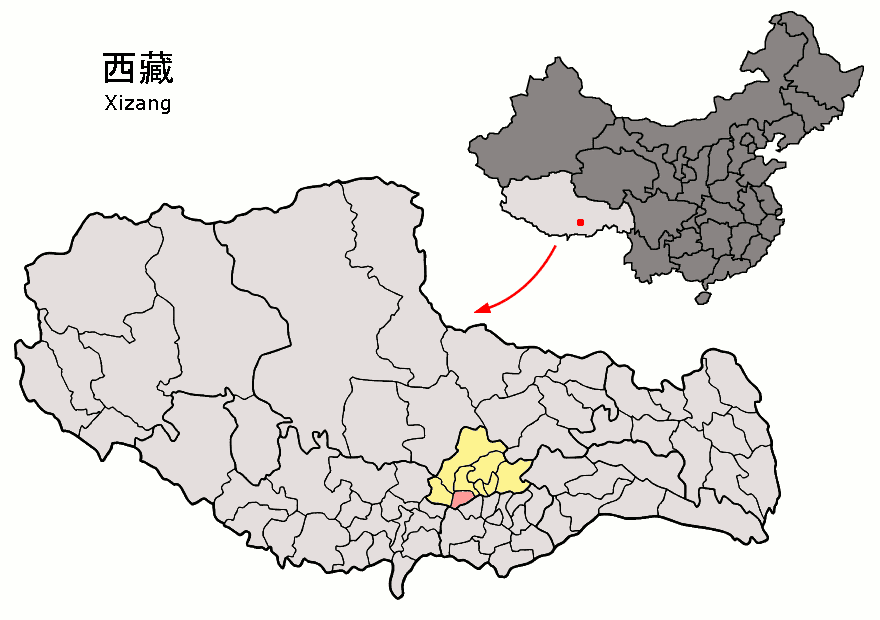 Location of Qüxü County (pink) and Lhasa prefecture (yellow) within Tibet (Xizang) autonomous region of China